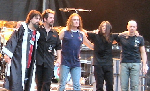 Dream Theater live in Paris 2005 at the end of the show